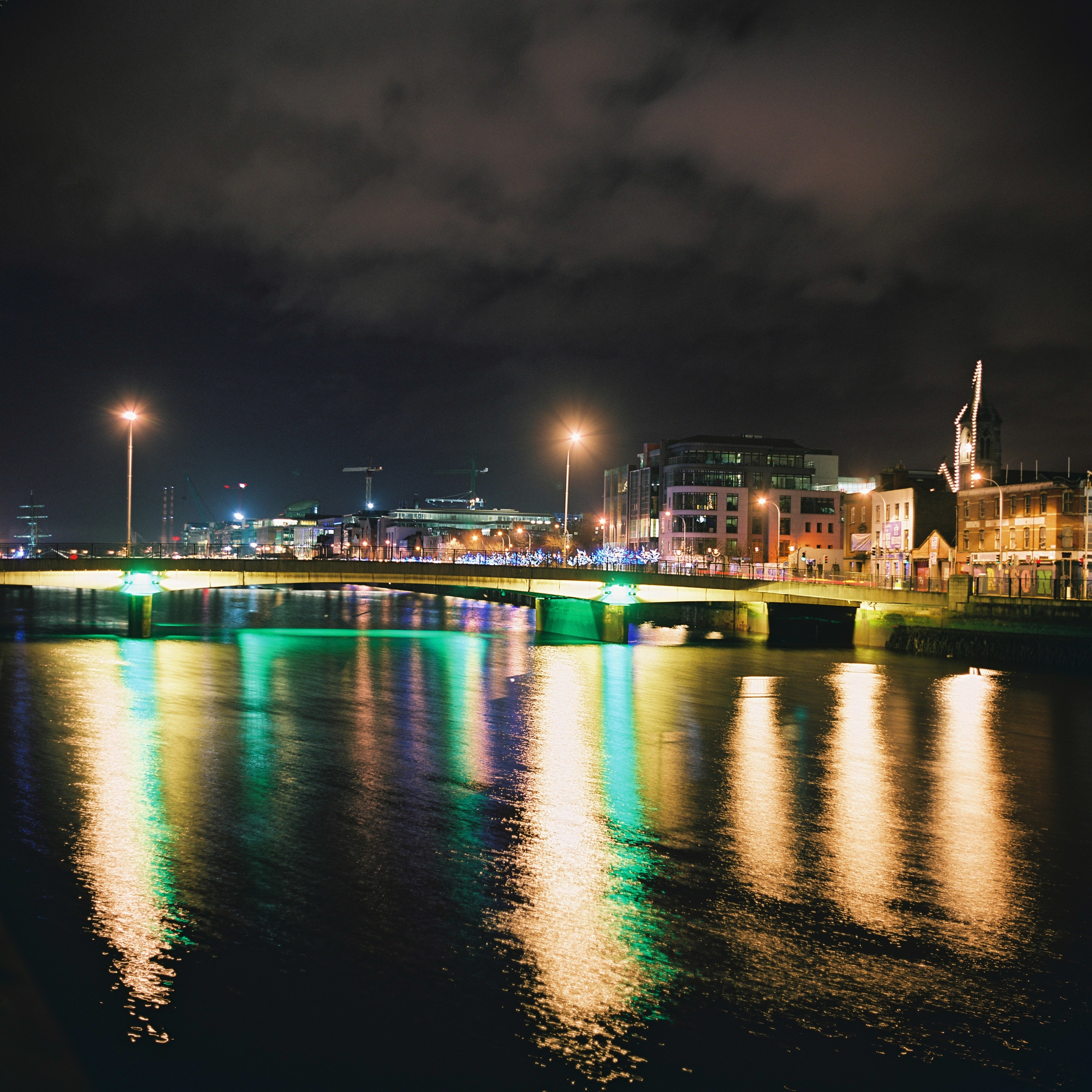 A view to the Talbot Memorial Bridge in Dublin.